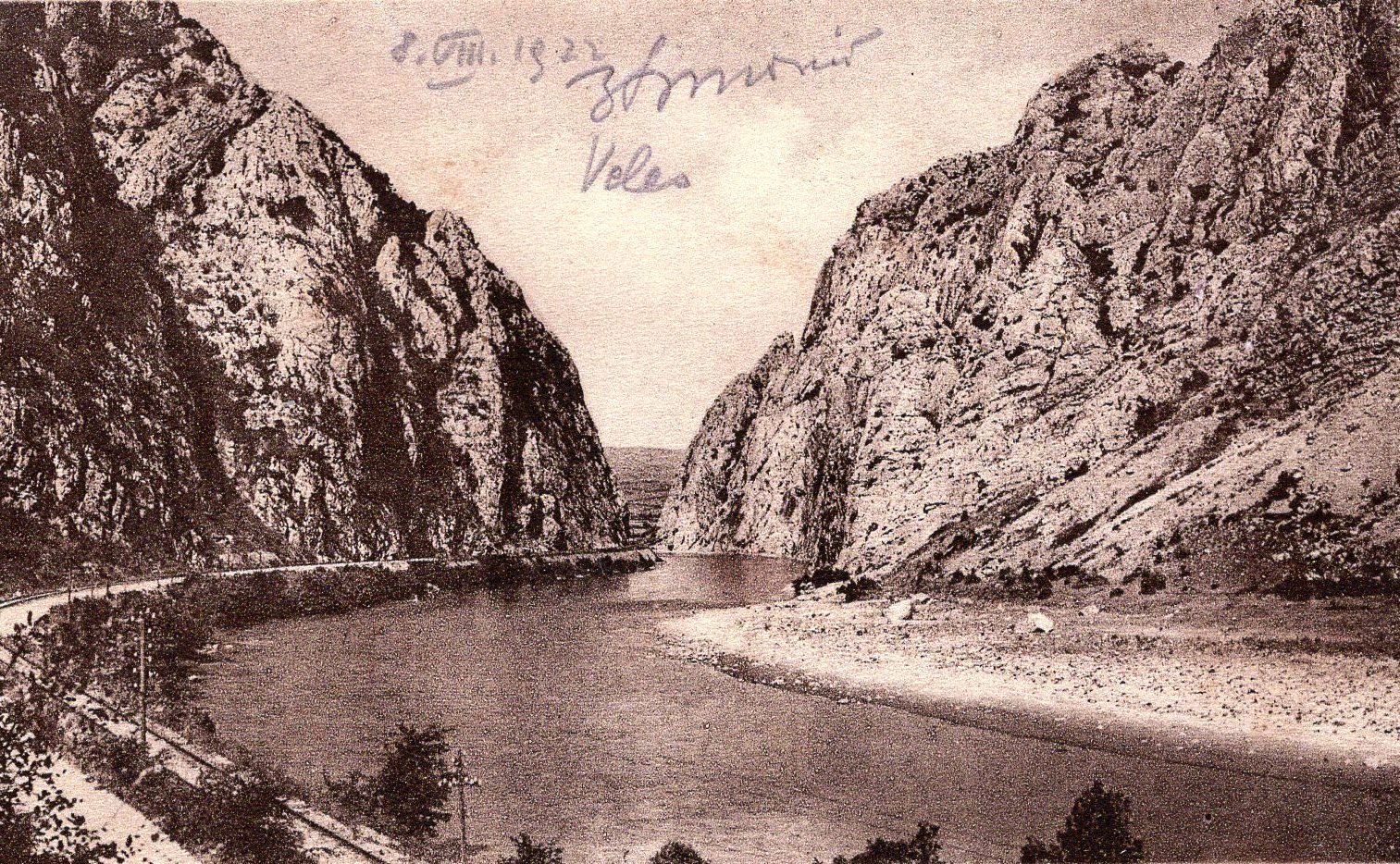 Vardar river near Veles, photo from 1922 This media file is produced by Wikipedian in Residence in Category:Wikipedian in Residence at DARM in 2016.